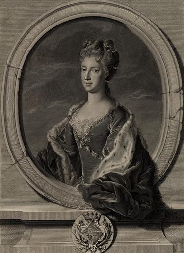 Louise Marie, The Princess Royal (1692-1712)